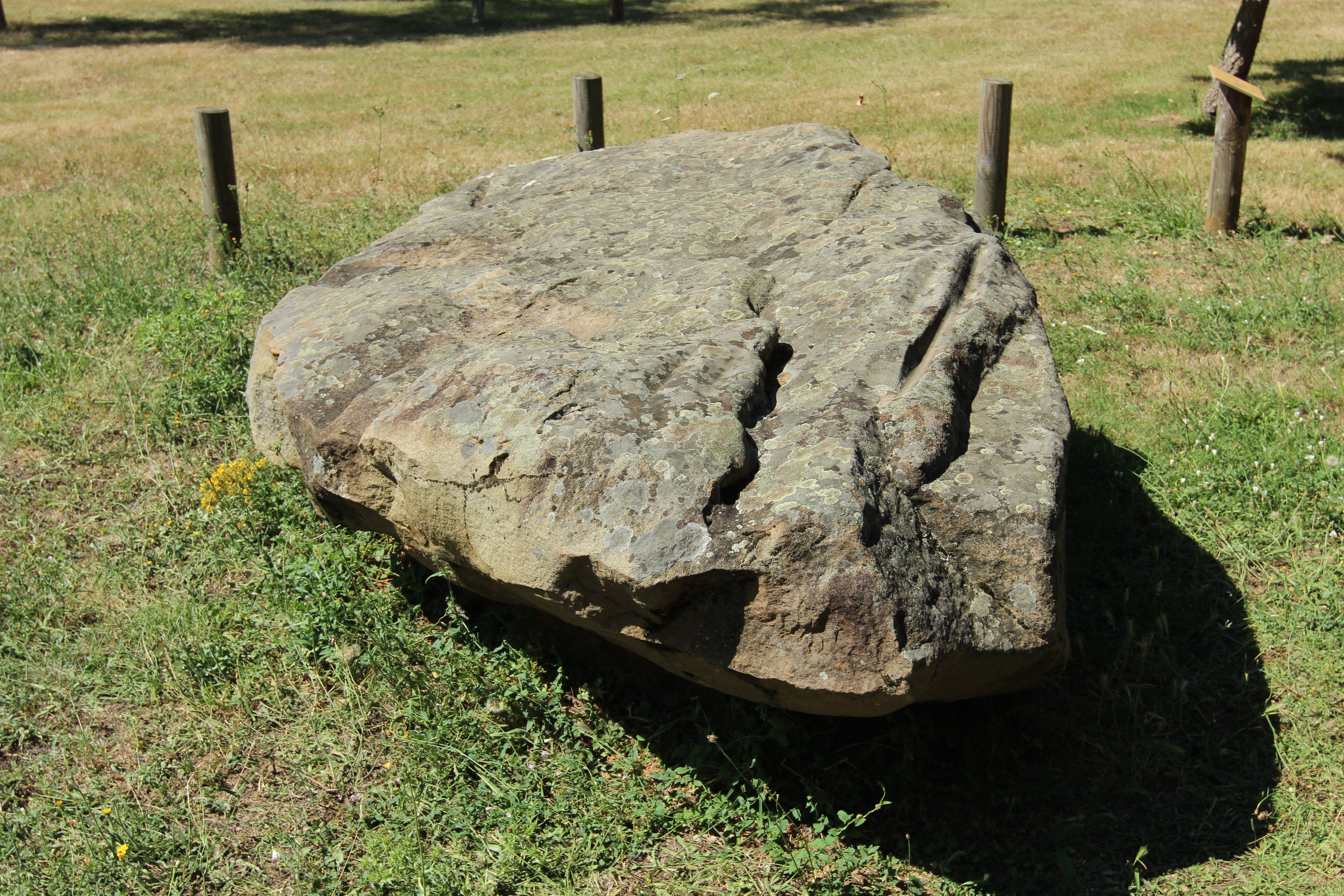 Menhir and grooves of Souhé in Naintré, France. Object location46° 45′ 36.68″ N, 0° 28′ 49.87″ E .